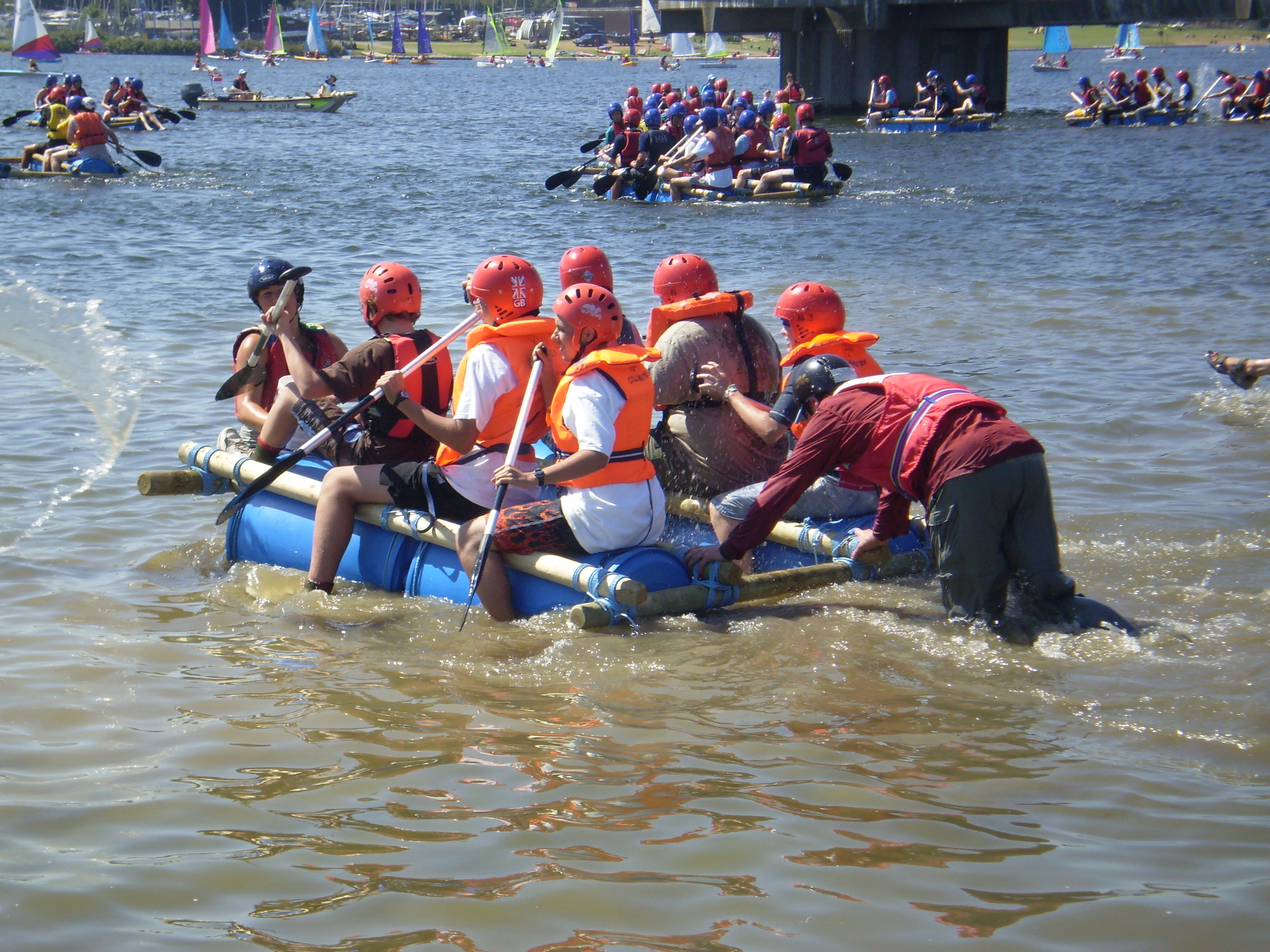 The Splash activity at the 21st World Scout Jamboree